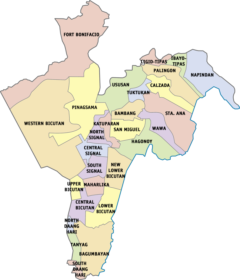 Map of Taguig City, Philippines. Filipino: Mapa ng Lungsod ng Taguig, Pilipinas.